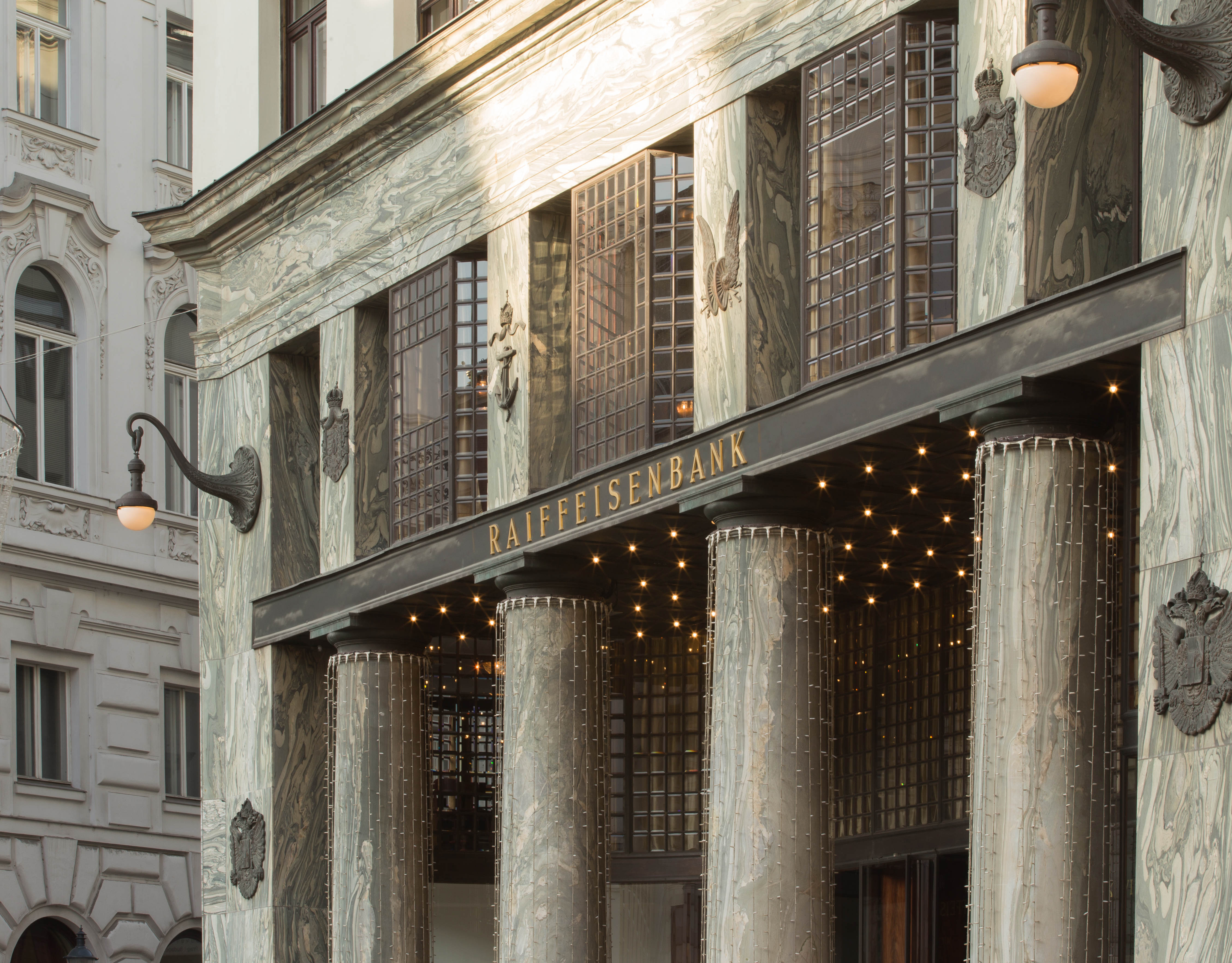 View at the Looshaus, Vienna, Michaelerplatz. Lower part of the facade The making of this work was supported by Wikimedia Austria. For other files made with the support of Wikimedia Austria, please see the category Supported by Wikimedia Österreich.